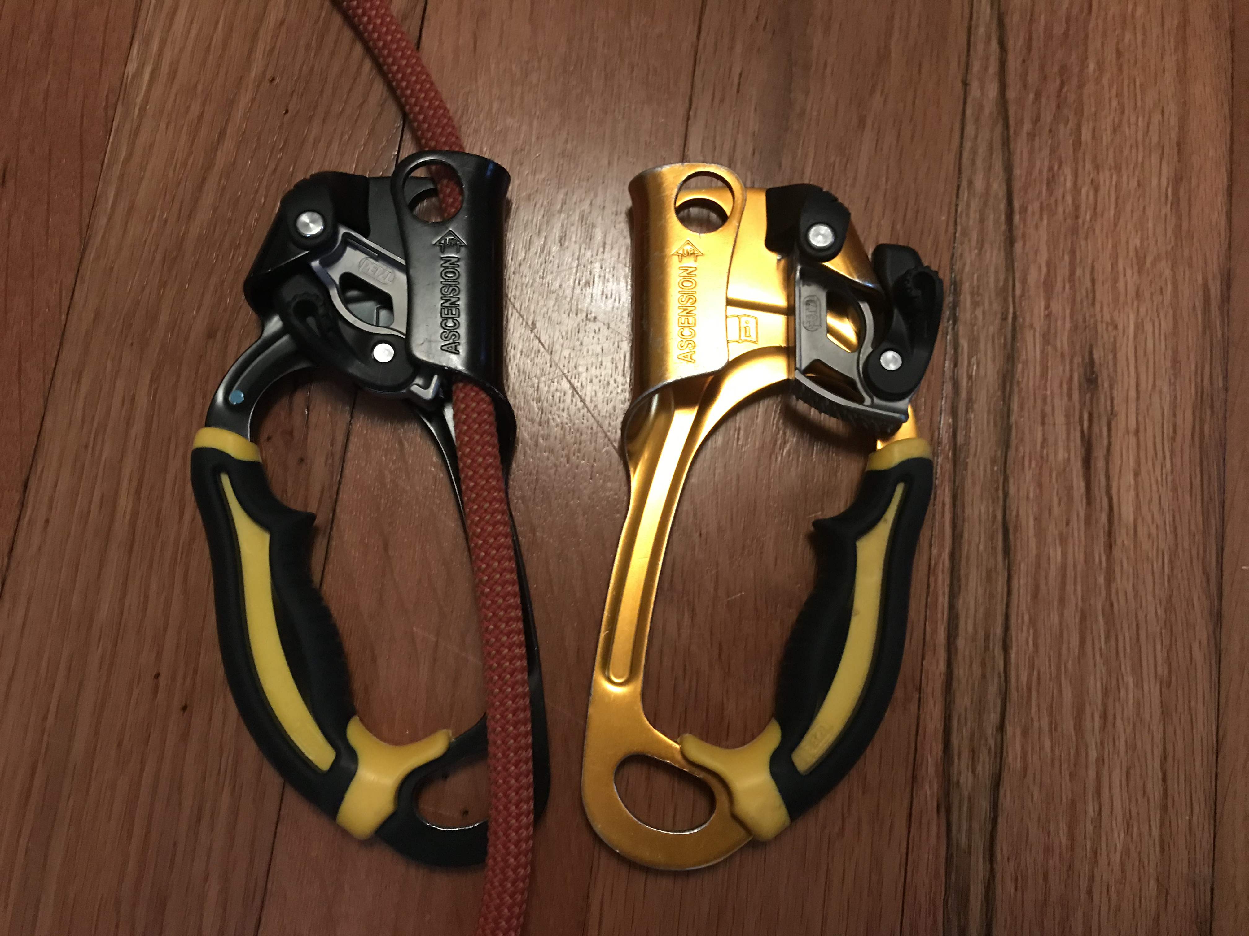 Petzl